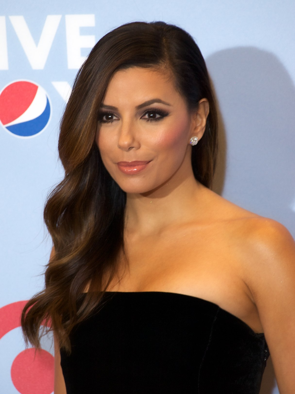 Eva Longoria at the Alma Awards 2012.